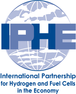 IPHE Logo